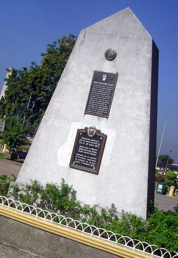 Another not so well known monument at the Luneta is that marking the site where Fr. Mariano Gomez, Fr. Jose Burgos, and Fr. Jacinto Zamora or collectively known as GOMBURZA were executed on 17 February 1872 after being falsely accused of masterminding the failed Cavite Mutiny. The target is Father Burgos and the real reason for his execution is to suppress his liberal ideas that favored the Filipino clergy and, according to historian Martin Tinio, his strict accounting of church finances. Olympus Camedia (May 2006, International Conference on RH Management). Slightly improved with Picasa.